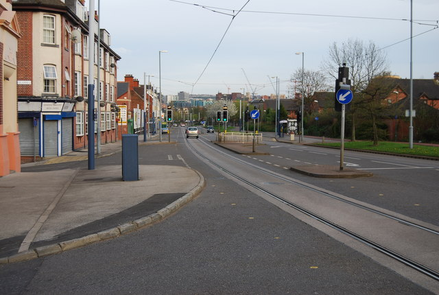 Tramlines on Infirmary Road, Sheffield Built in 1994.